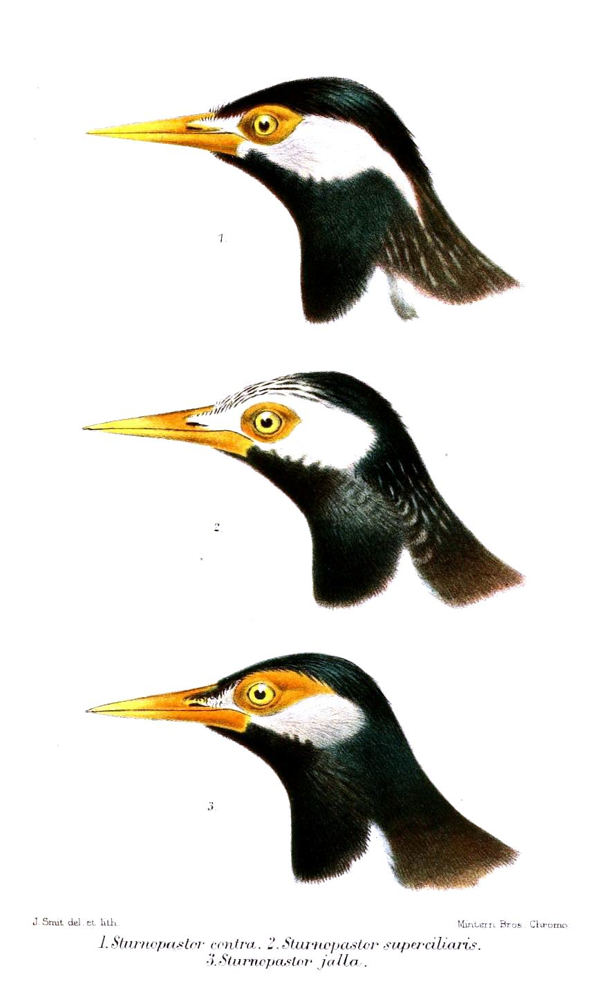 Asian Pied Starling